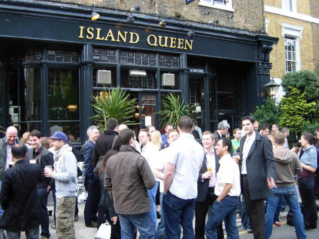 The Island Queen, Islington Friday evening drinkers spill out on to the pavement outside the Island Queen on Noel Road; internally the pub is remarkable for its original decor and fittings.